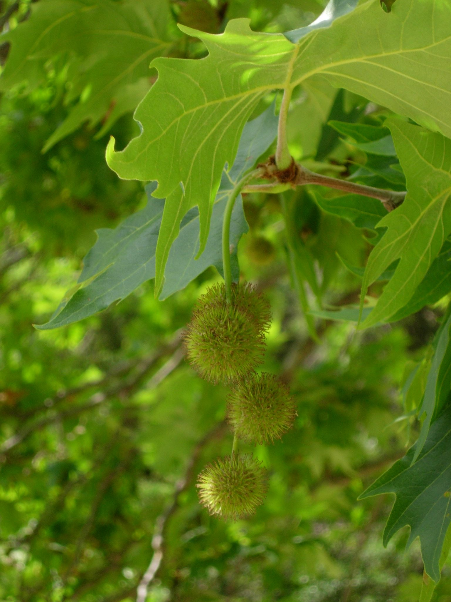 Platanus orientalis by the River Styx, Greece.